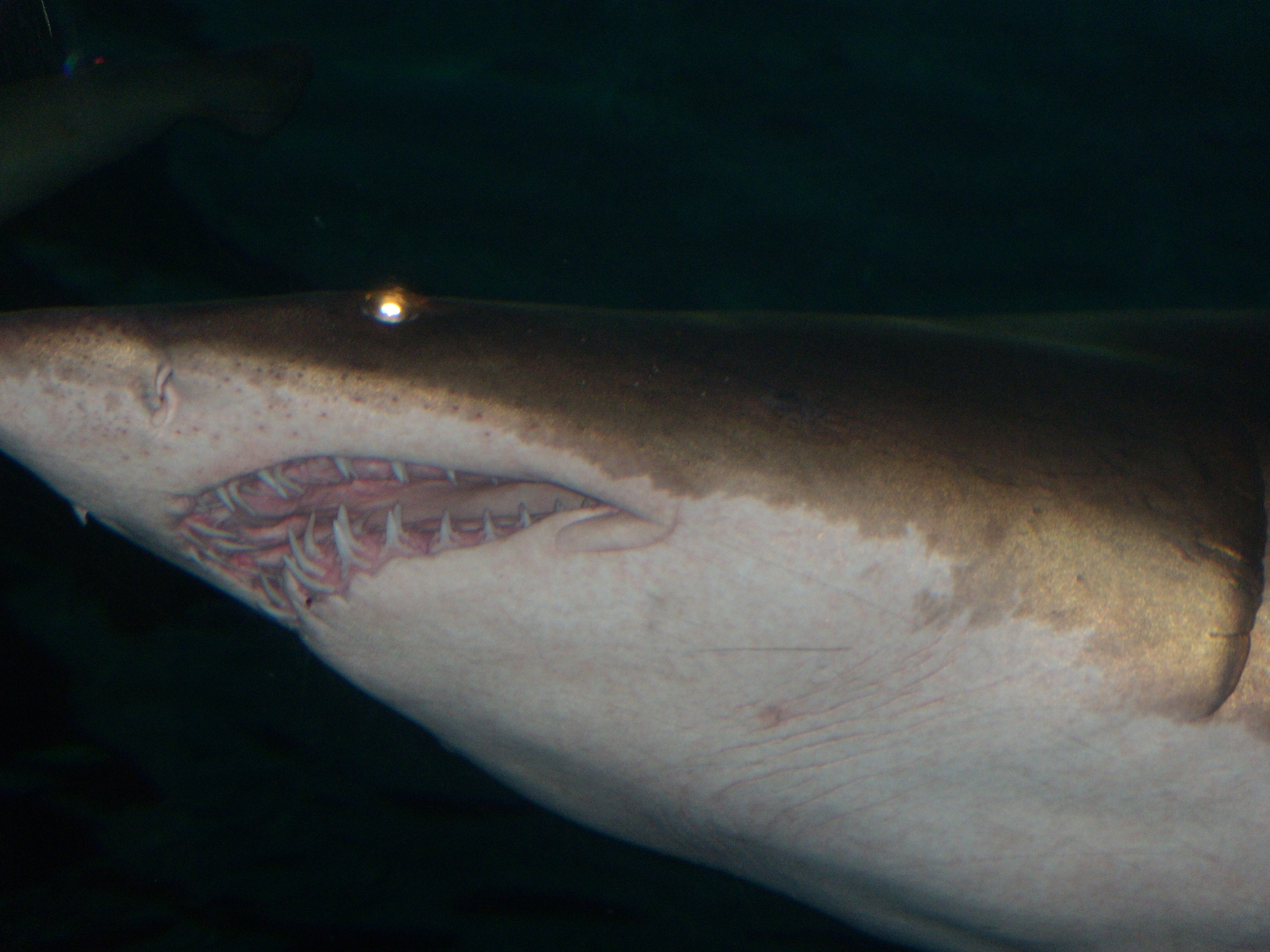 Sand Tiger Shark